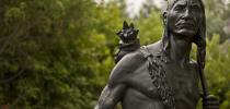 This is the Anishinaabe Scout Status that can be currently found in Major Hill Park in Ottawa, Ontario.